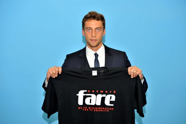 Juventus midfielder Claudio Marchisio holds up the FARE t-shirt and show his support for the FARE Action Weeks 2011